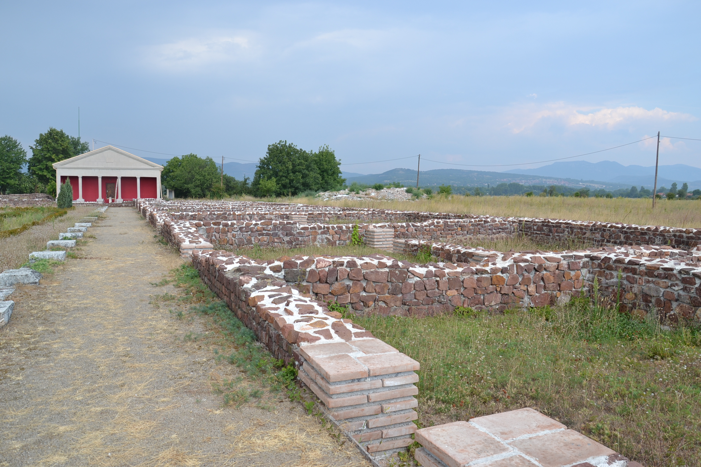 Mediana, Niš, Serbia